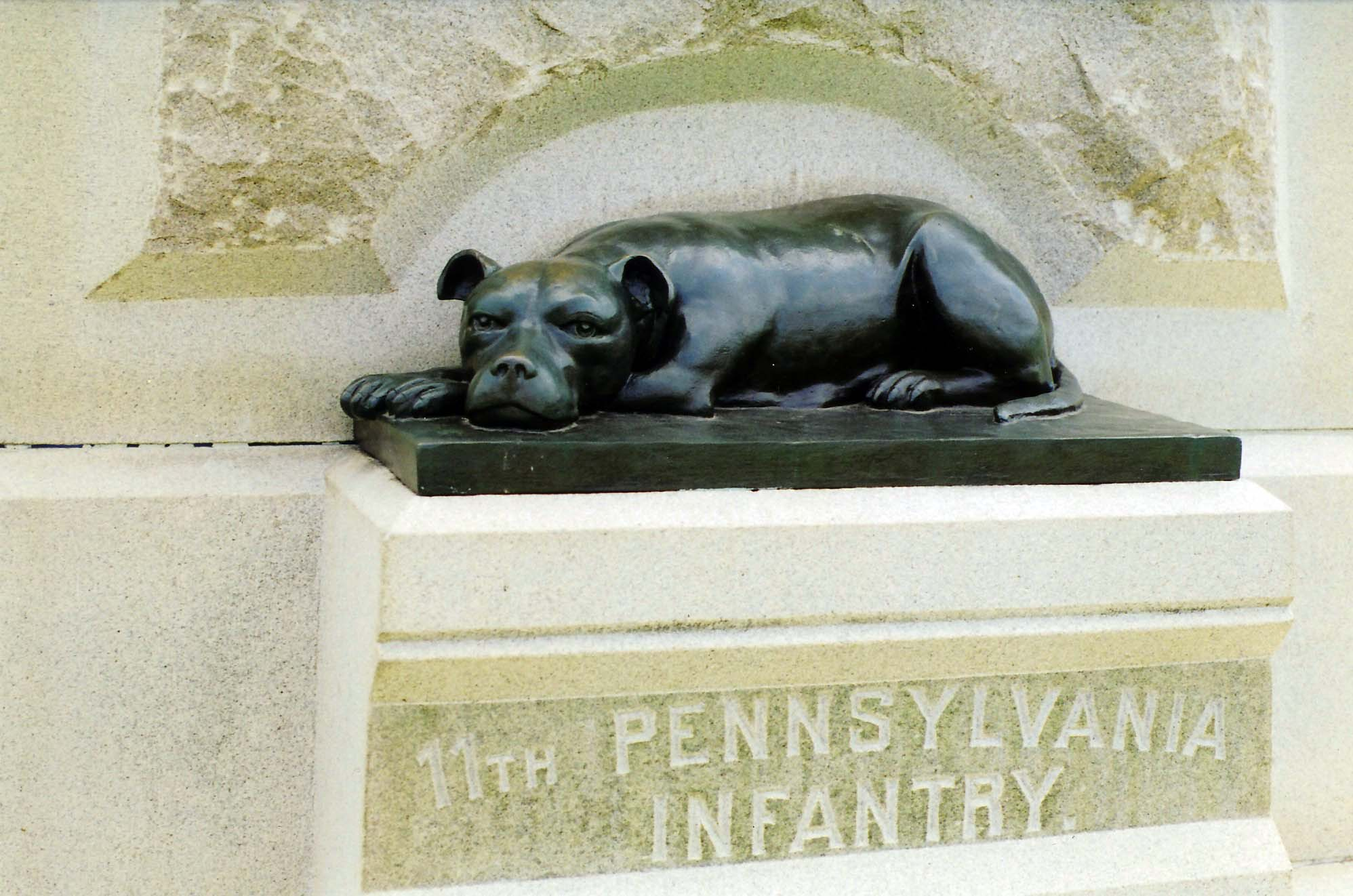 11th PA Infantry monument, Gettysburg Battlefield, 1890